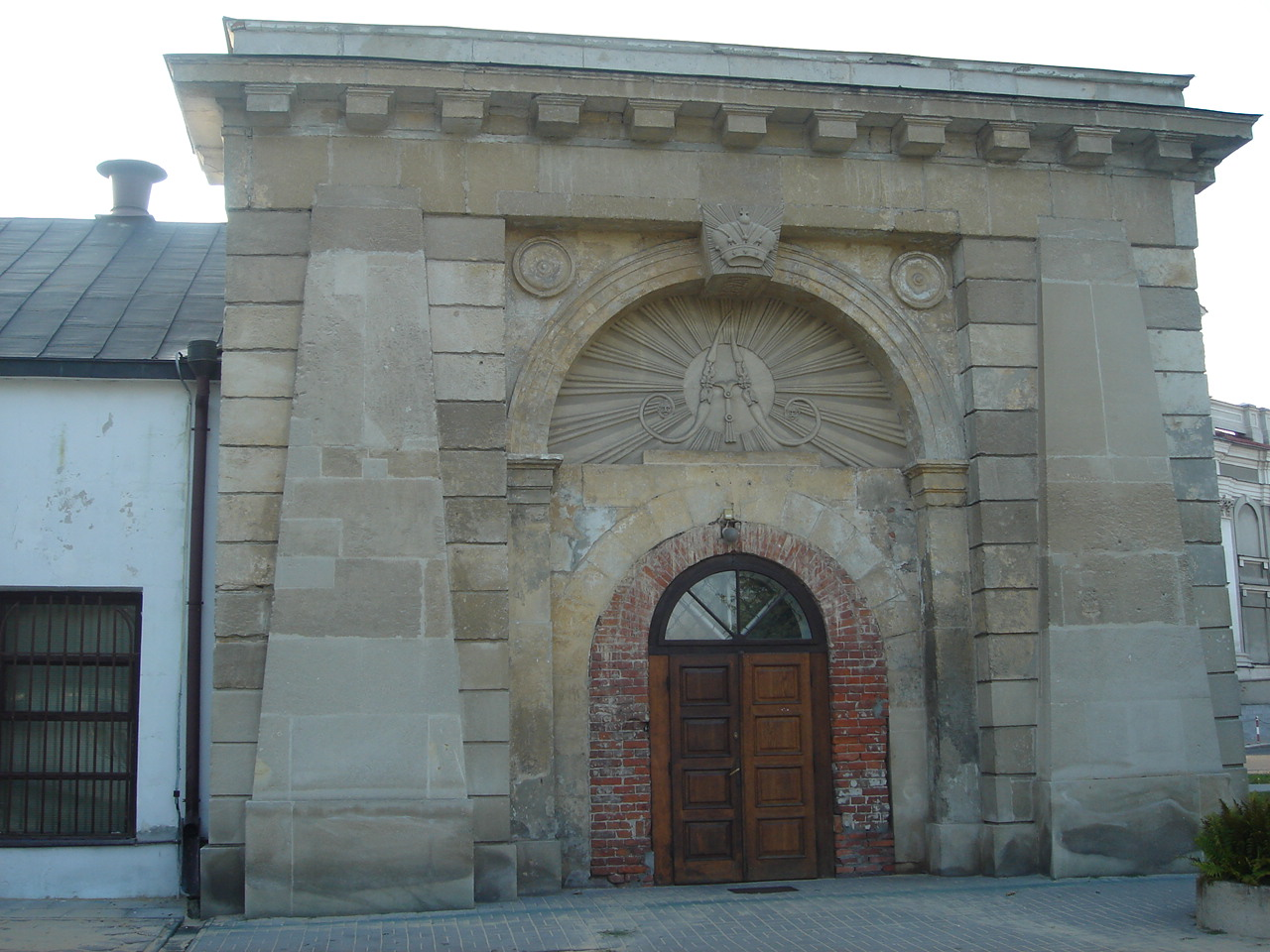 New Lwowska Gate in Zamość built by Jan Pawel Lelewel